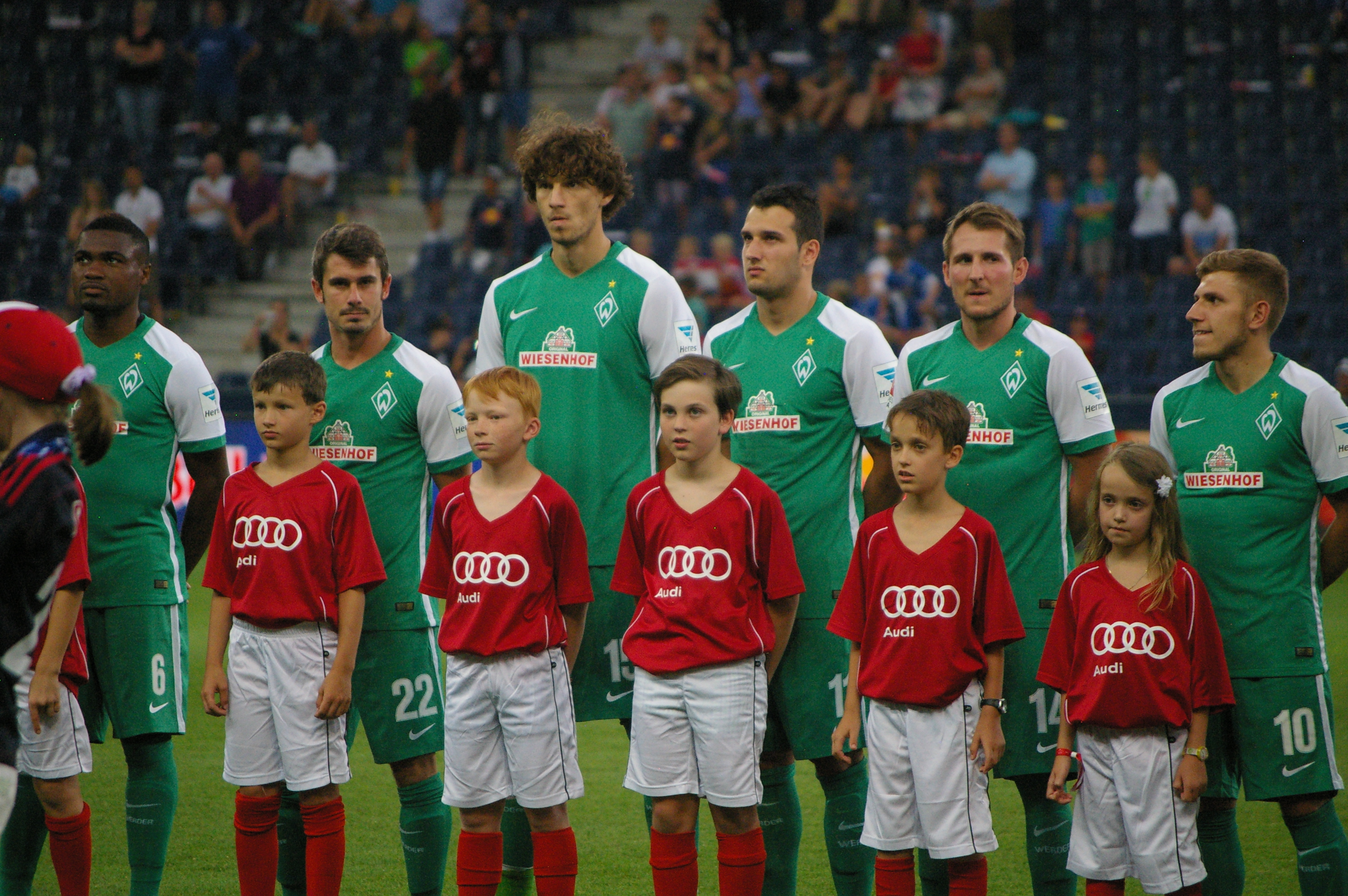 tournament with SV Werder Bremen, FC Southampton, Red Bull Salzburg and Valencia CF preseason friendly matches